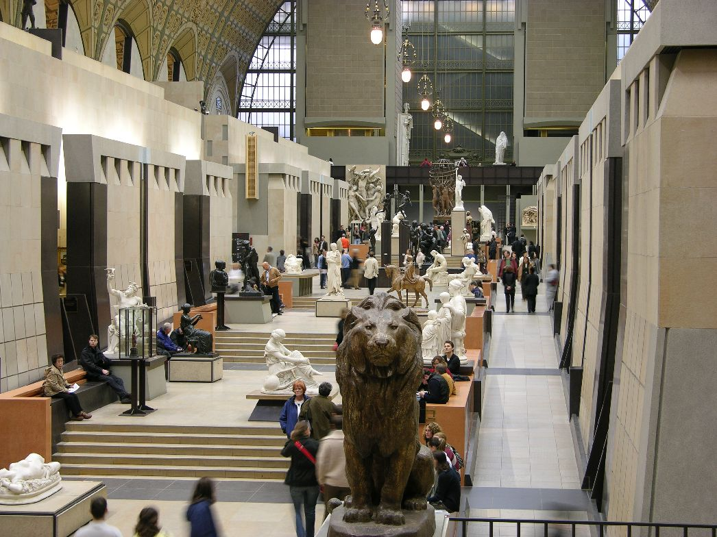 Main hall of the Musée d'Orsay, Paris